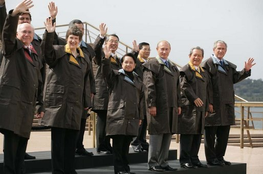 APEC leaders don brown Drizabone coats as they pose for the official APEC portrait Saturday, Sept. 8, 2007, at the Sydney Opera House. White House photo by Eric Draper. Front row, left-to-right: John Howard (Australia), Helen Clark (New Zealand), Gloria Macapagal-Arroyo (Philippines), Vladimir Putin (Russia), Surayud Chulanont (Thailand), George W. Bush (United States). Rear row, l-r: Alan García (Peru), Lee Hsien Loong (Singapore), Stan Shih (Taiwan), Nguyễn Minh Triết (Vietnam)